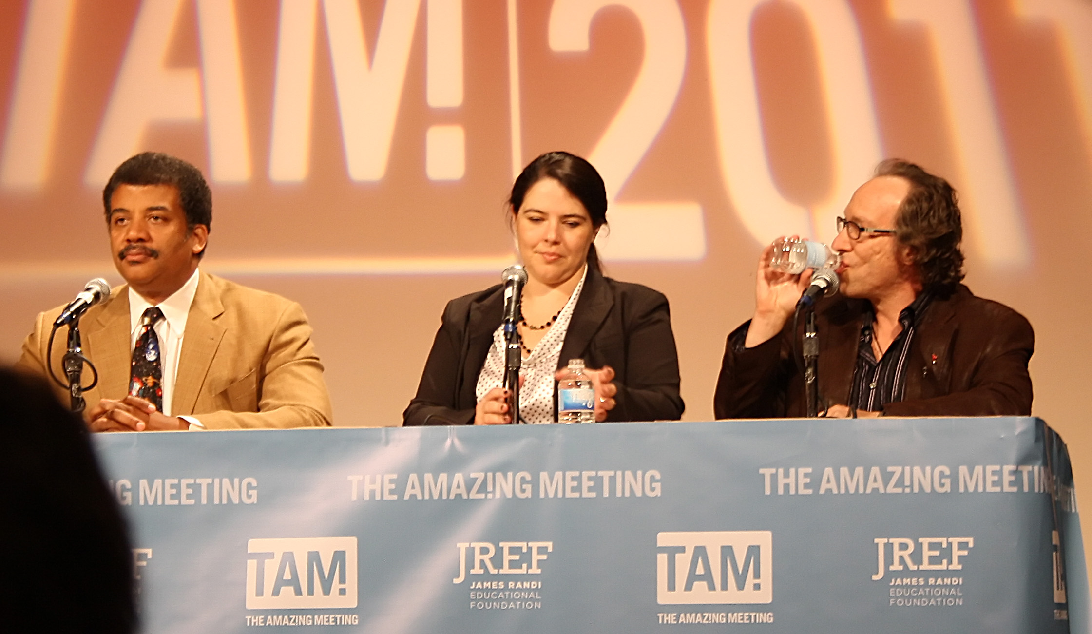 Neil Degrasse Tyson, Pamela Gay and Lawrence Krauss at TAM 9 (2011)